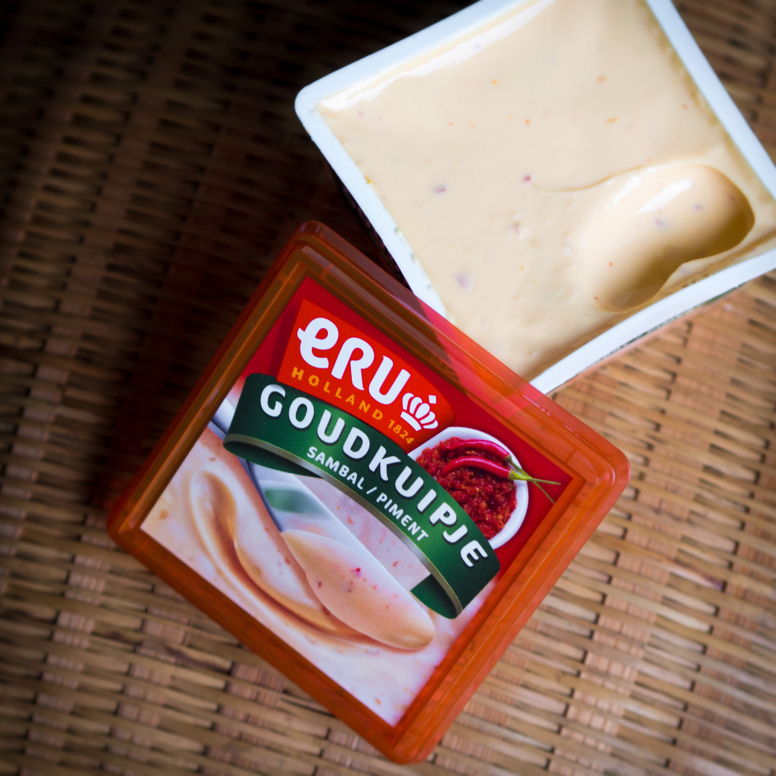 Eru Goudkuipje Sambal: A Dutch processed cheese spread with chili paste as one of its ingredients